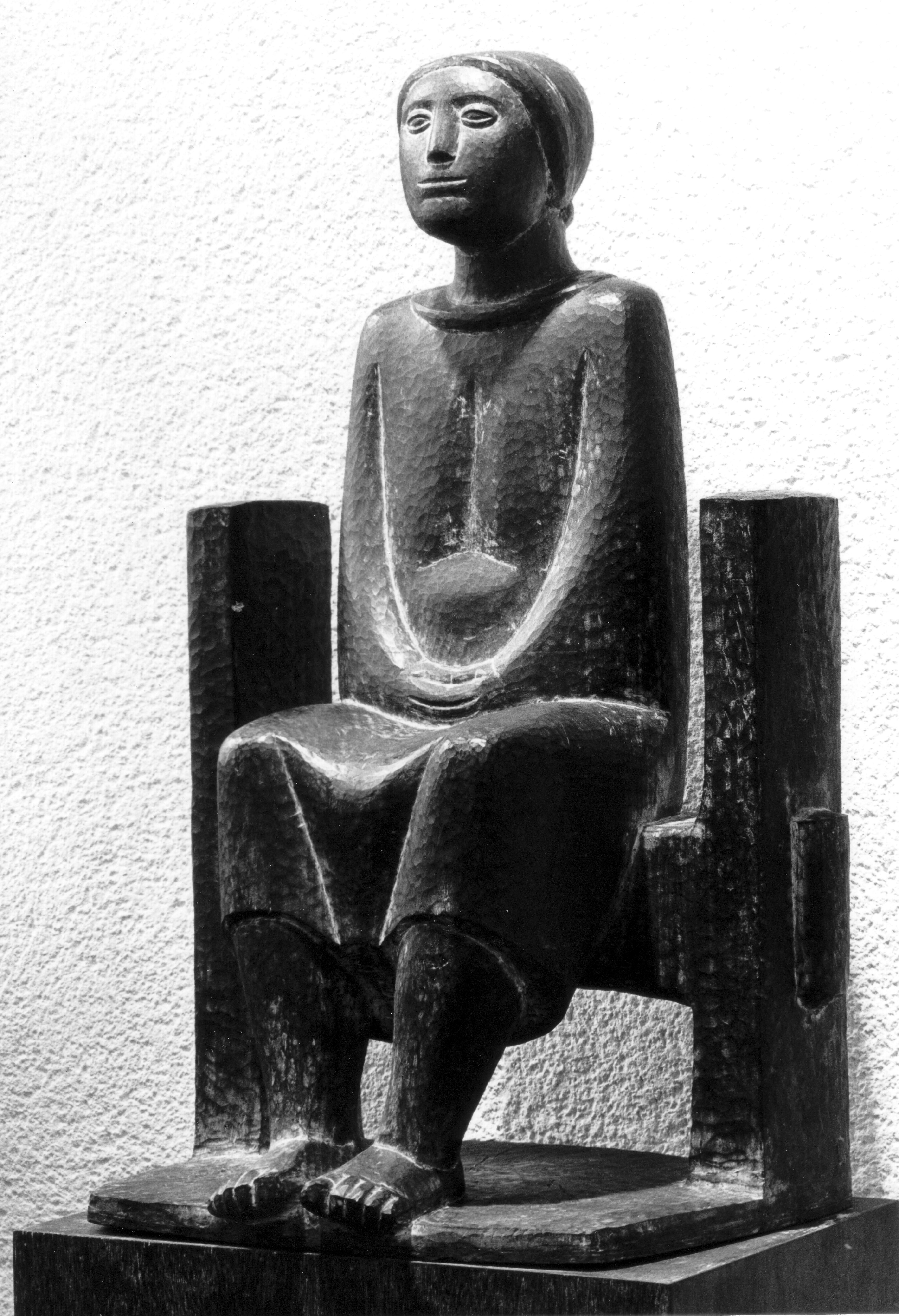 Albrecht Glenz: Sitting female. Lime tree wood.